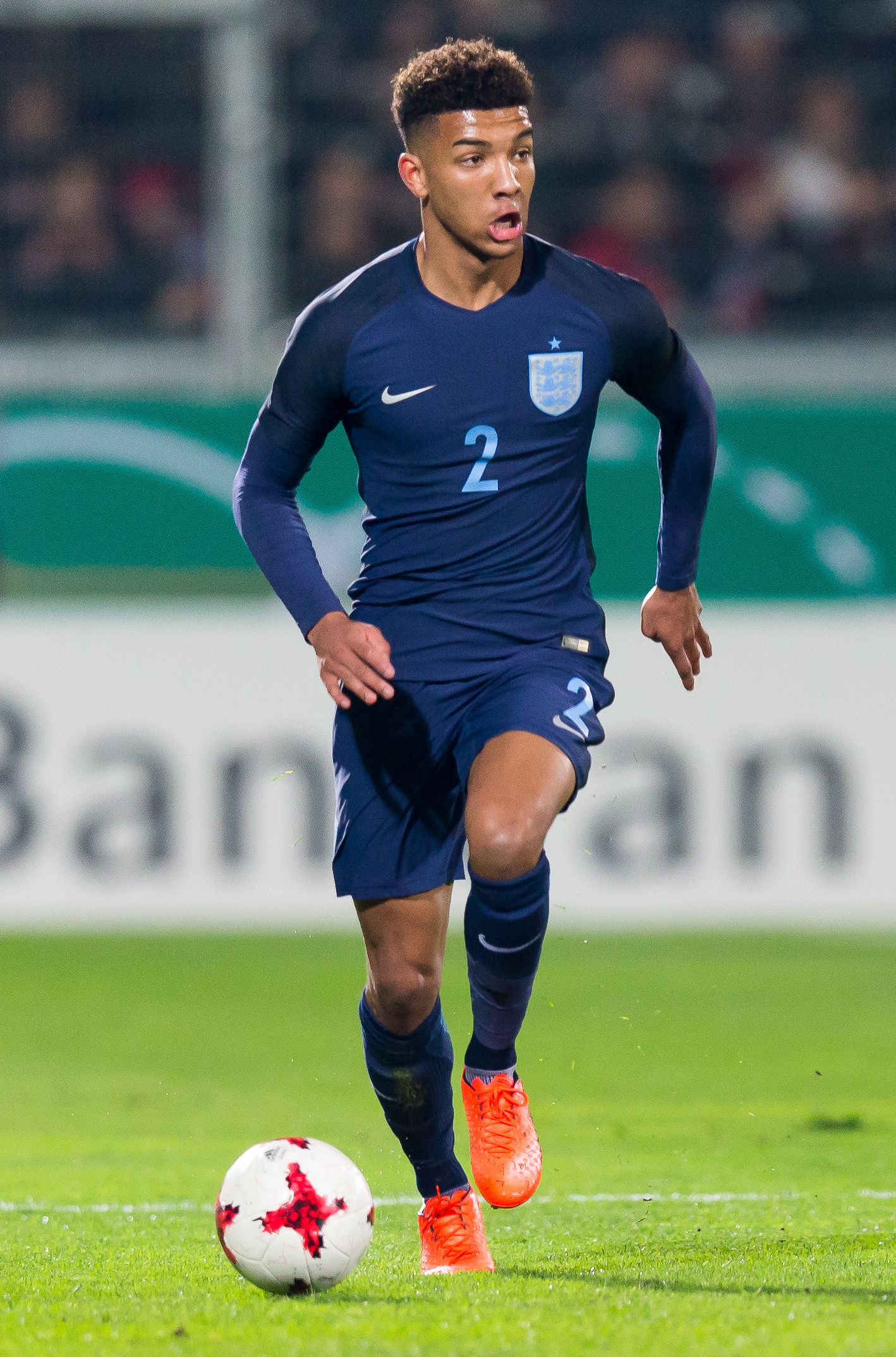 Football U21 Germany vs England (1:0) Team Germany 12 Julian Pollersbeck (1. FC Kaiserslautern) 1 Marvin Schwäbe (Dynamo Dresden) 23 Odisseas Vlachodimos (Panathinaikos Athen) 16 Kevin Akpoguma (Fortuna Düsseldorf) 3 Yannick Gerhardt (VfL Wolfsburg) 5 Matthias Ginter (Borussia Dortmund) 22 Benjamin Henrichs (Bayer 04 Leverkusen) 15 Marc-Oliver Kempf (SC Freiburg) 4 Niklas Stark (Hertha BSC) 13 Jeremy Toljan (1899 Hoffenheim) 2 Mitchell Weiser (Hertha BSC) 18 Nadiem Amiri (1899 Hoffenheim) 10 Maximilian Arnold (VfL Wolfsburg) 25 Hany Mukhtar (Brøndby IF) 7 Max Meyer (FC Schalke 04) 19 Janik Haberer (SC Freiburg) 21 Gideon Jung (Hamburger SV) 20 Levin Öztunali (1. FSV Mainz 05) 17 Maximilian Philipp (SC Freiburg) 9 Davie Selke (RB Leipzig) 27 Thilo Kehrer (FC Schalke 04) Team England 1 Jordan Pickford (Sunderland) 2 Mason Holgate (Everton) 13 Angus Gunn (Manchester City) 21 Christian Walton (Brighton) 16 Kortney Hause (Wolverhampton) 5 Jack Stephens (Southampton) 15 Rob Holding (Arsenal) 12 Joe Gomez (Liverpool) 3 Ben Chilwell (Leicester City) 6 Alfie Mawson (Swansea City) 22 Sam McQueen (Southampton) 4 Nathaniel Chalobah (Chelsea) 14 Will Hughes (Derby County) 20 Ruben Loftus-Cheek (Chelsea) 10 Lewis Baker (Vitesse Arnheim) 18 John Swift (Reading) 23 Jack Grealish (Aston Villa) 8 Harry Winks (Hotspur) 19 Cauley Woodrow (Fulham) 9 Tammy Abraham (Bristol City) 17 Solly March (Brighton) 11 Jacob Murphy (Norwich) during Fussball U21 Deutschland vs England at Brita-Arena, Wiesbaden, Hessen, Germany on 2017-03-24, Photo: Sven Mandel